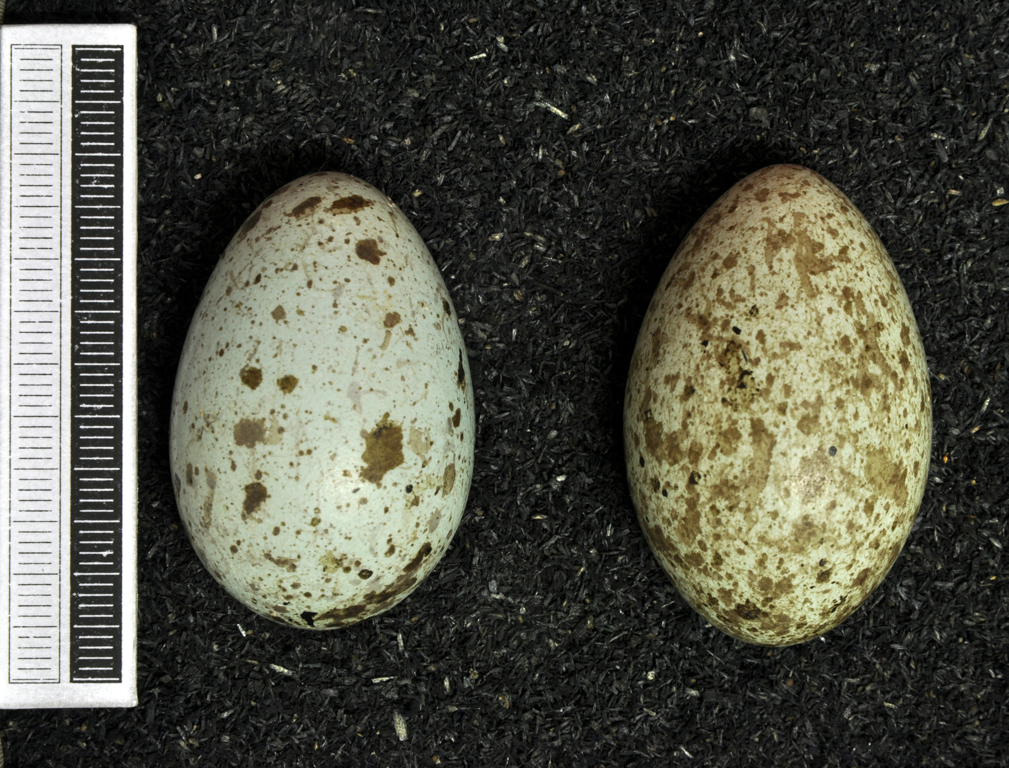 Rook Corvus frugilegus , egg, Coll. Museum Wiesbaden